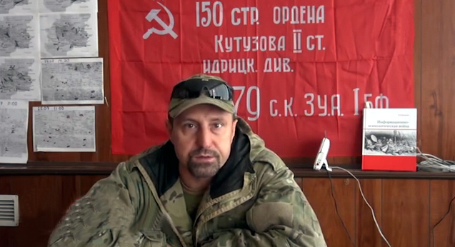 Donbass rebel leader Alexander Khodakovsky, August 9, 2014.